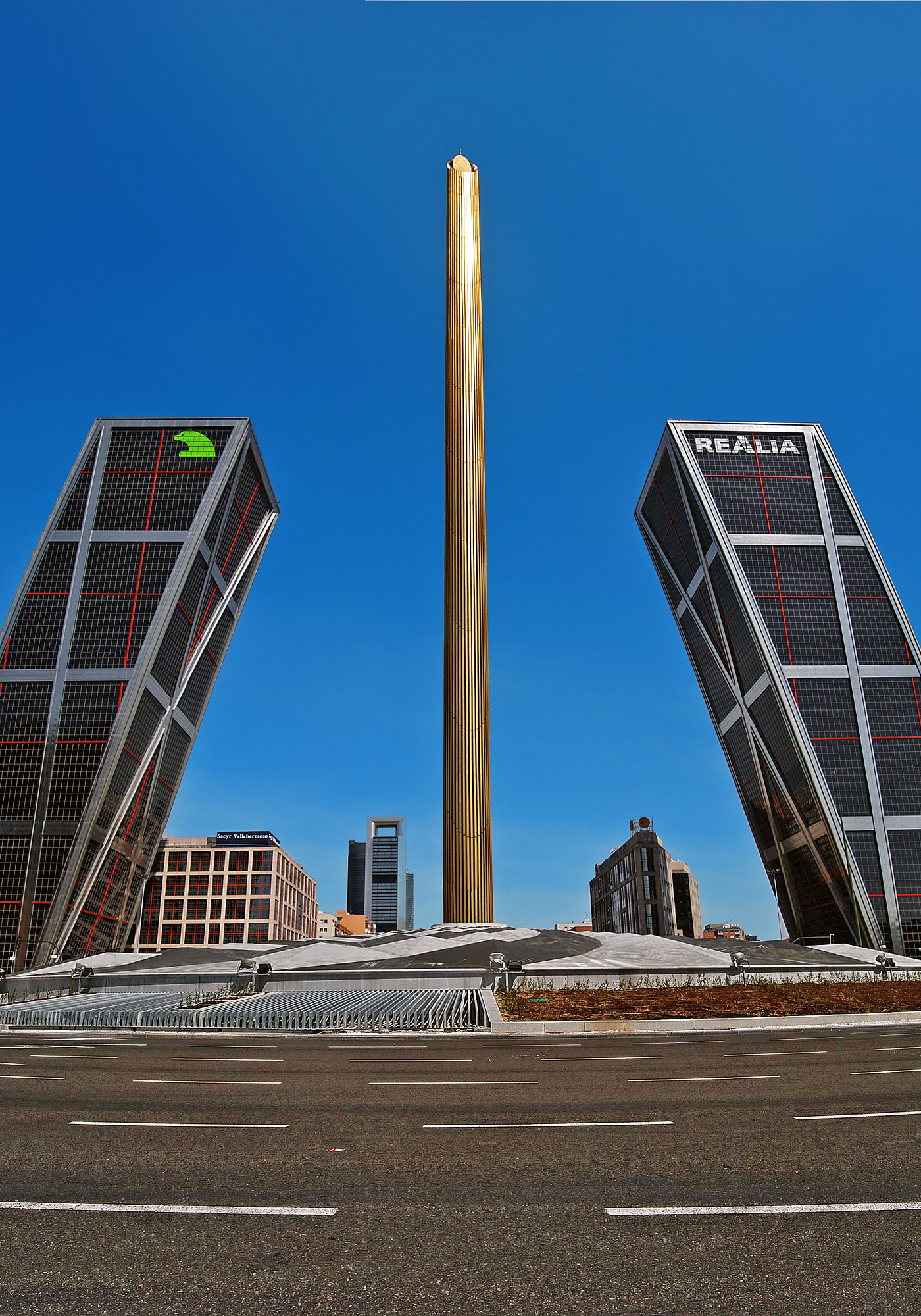 Calatravas obelisk of Madrid